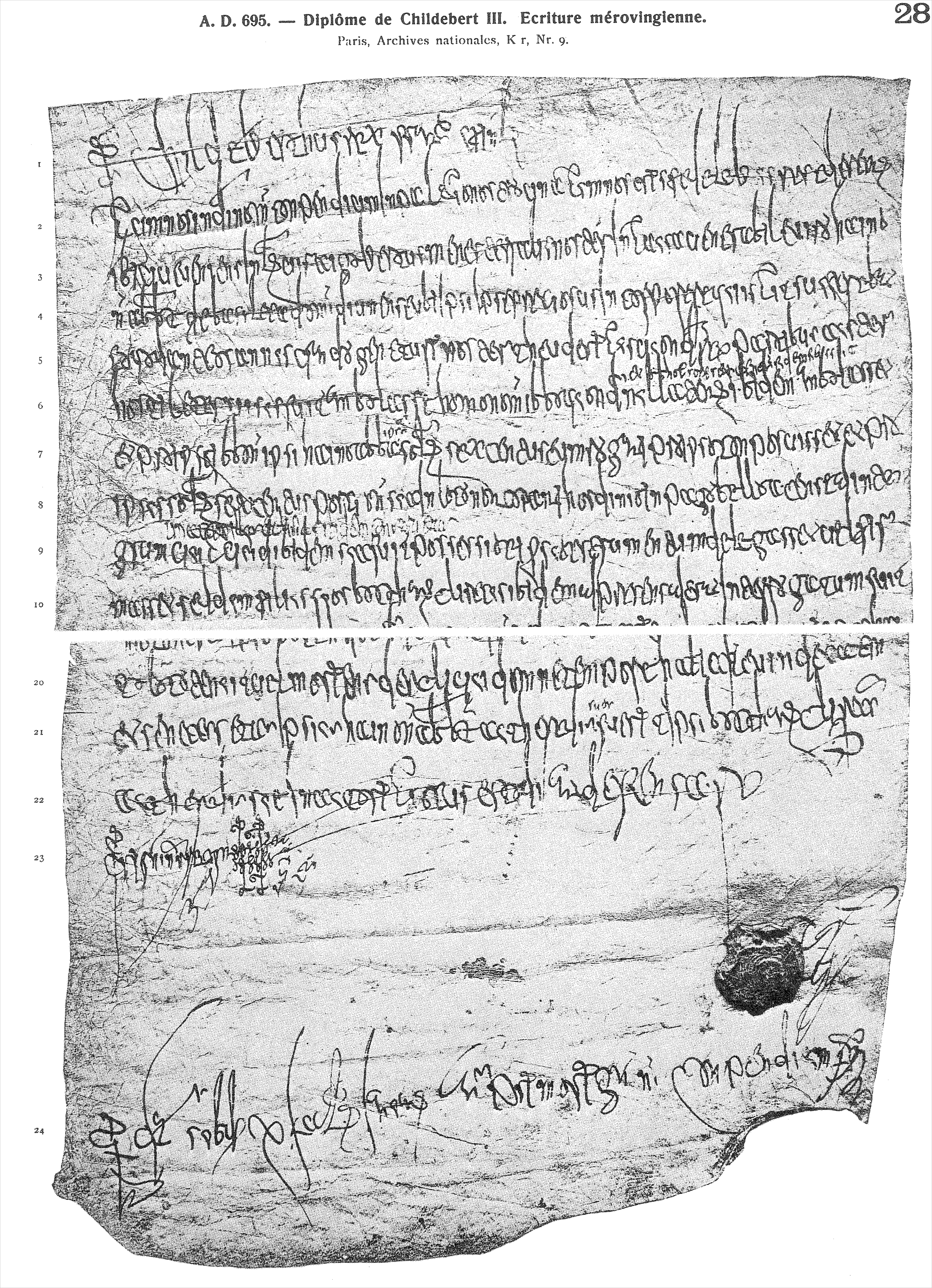 Diploma of the franco merovingian king Childebert III, dated 695. Minuscule of Merovingian base